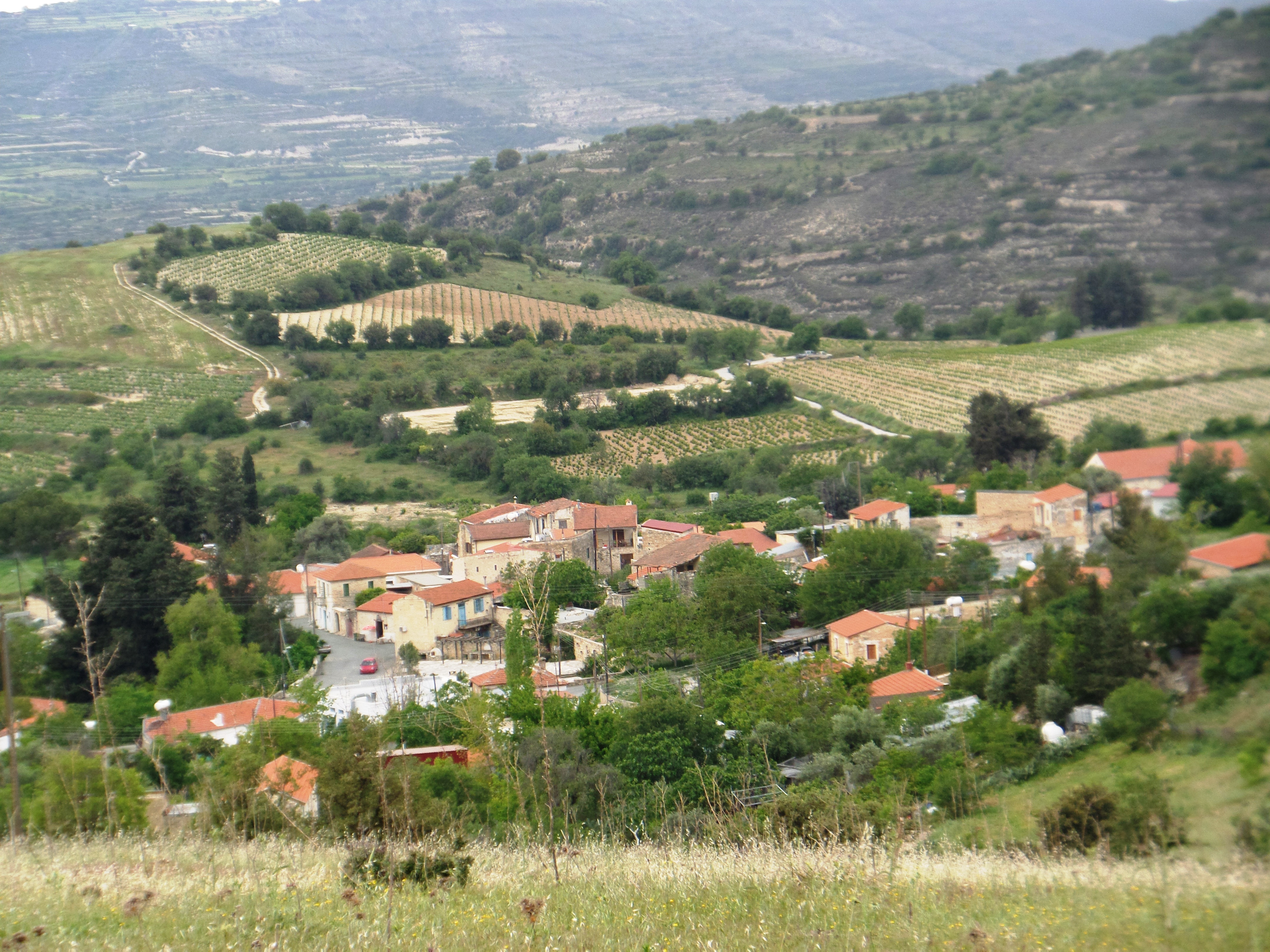 View of Malia, Cyprus.